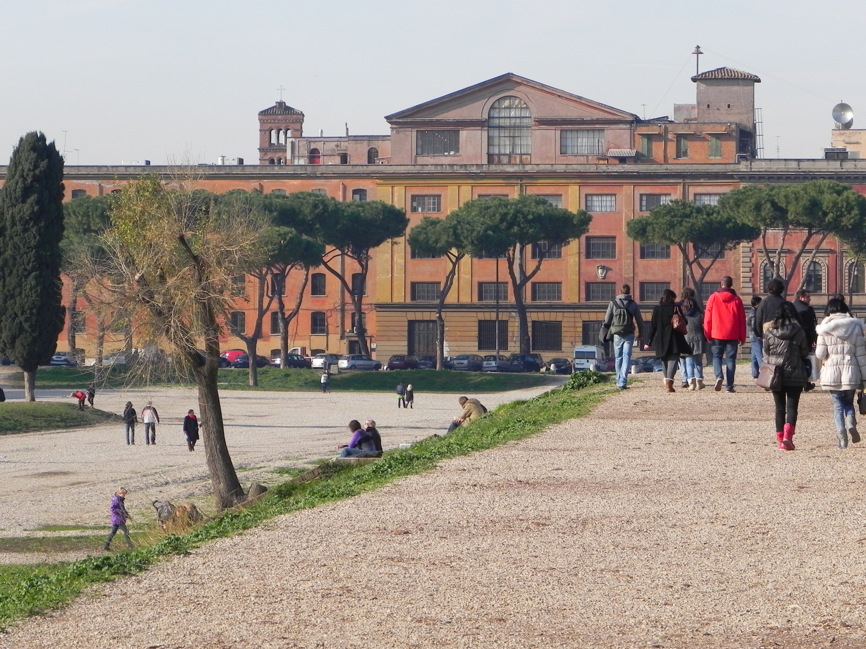 A view from The Circus Maximus